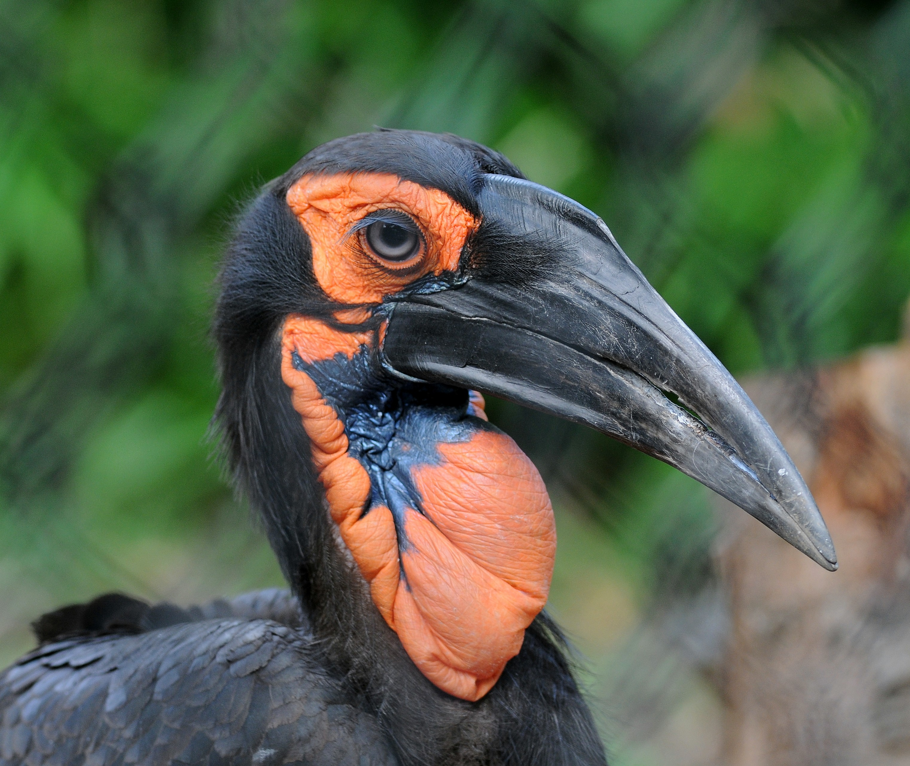 Southern Ground-hornbill at Philadelphia Zoo, USA. TAKEN WITH A D300 200-400MM LENS AT 220MM F4 1/100 sec, manual focus